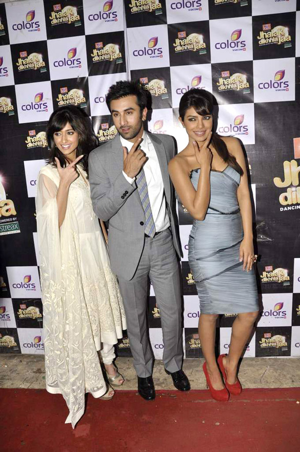 Promotions of 'Barfi!' on the sets of 'Jhalak Dikhhla Jaa'